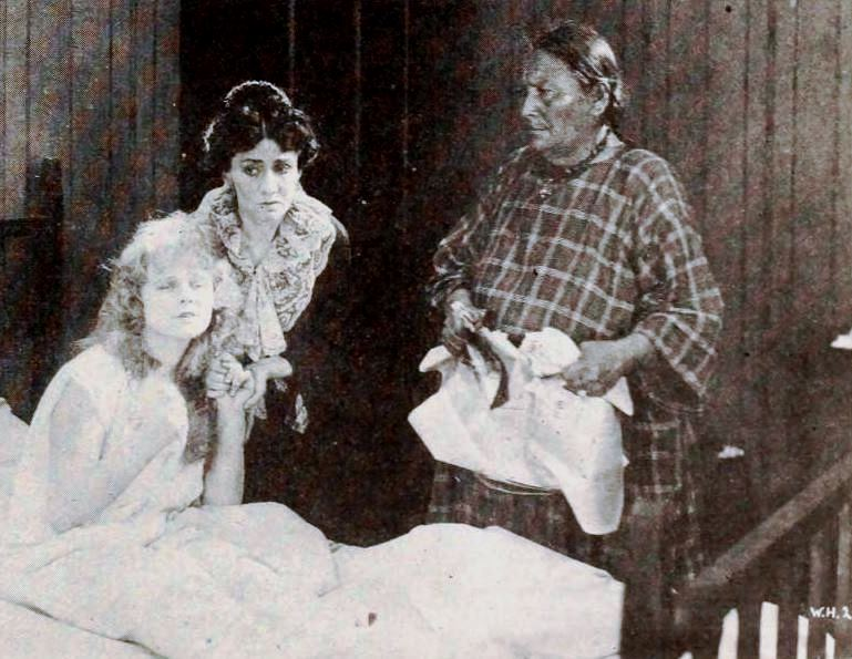 Still from the American comedy drama film Food for Scandal (1920) with Wanda Hawley, Margaret McWade, and Minnie Devereaux, on page 89 of the October 30, 1920 Exhibitors Herald.